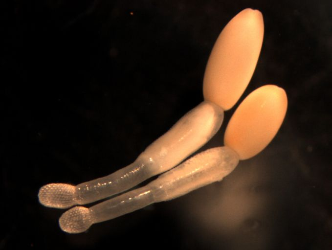 Acanthocephalan parasite, Profilicollis altmani from the mole crab, Emerita analoga